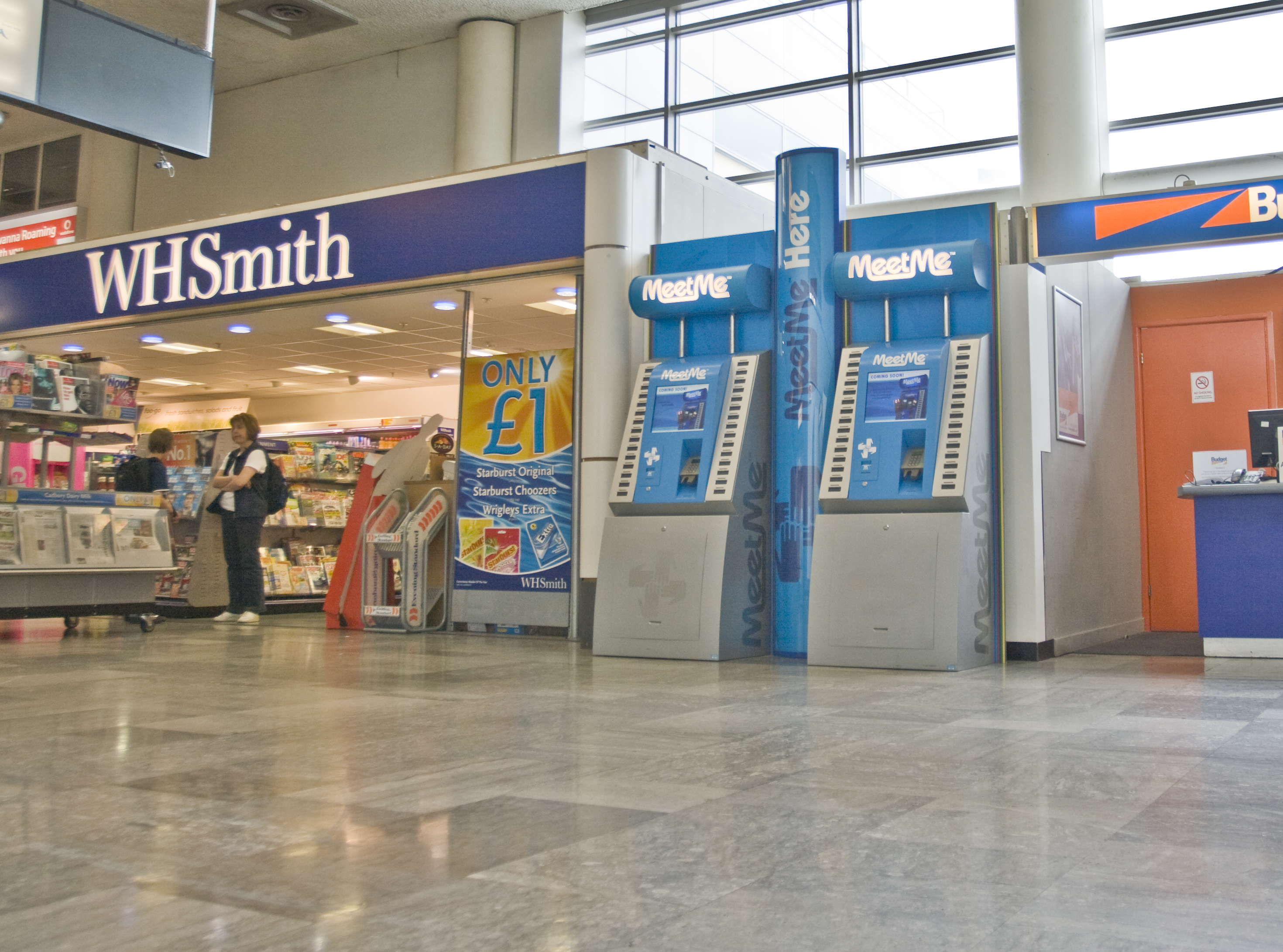 MeetMe Kiosks in London's Heathrow Airport Terminal 2 Arrivals